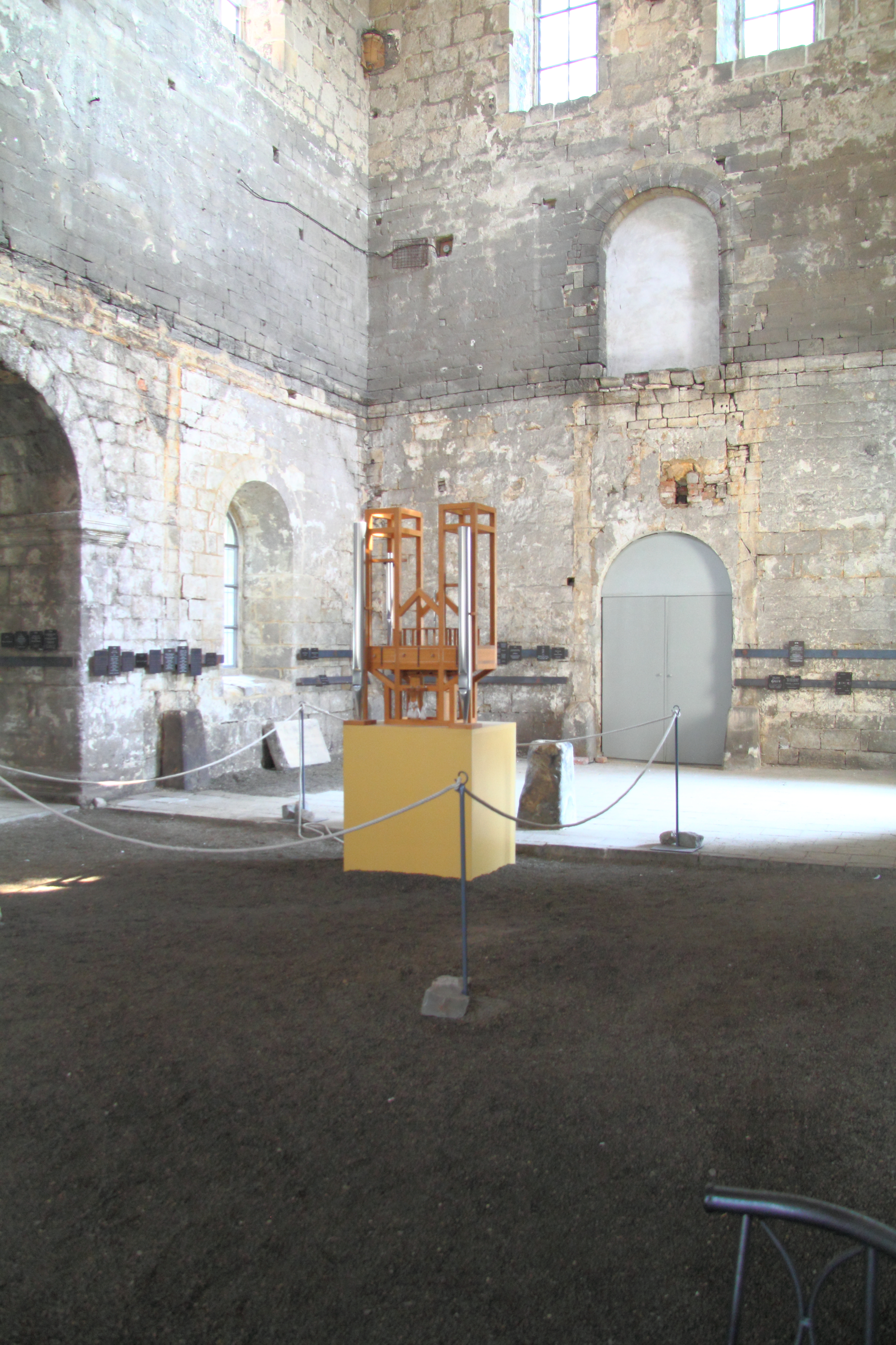 Halberstadt, Germany: St. Burchardi Monastery